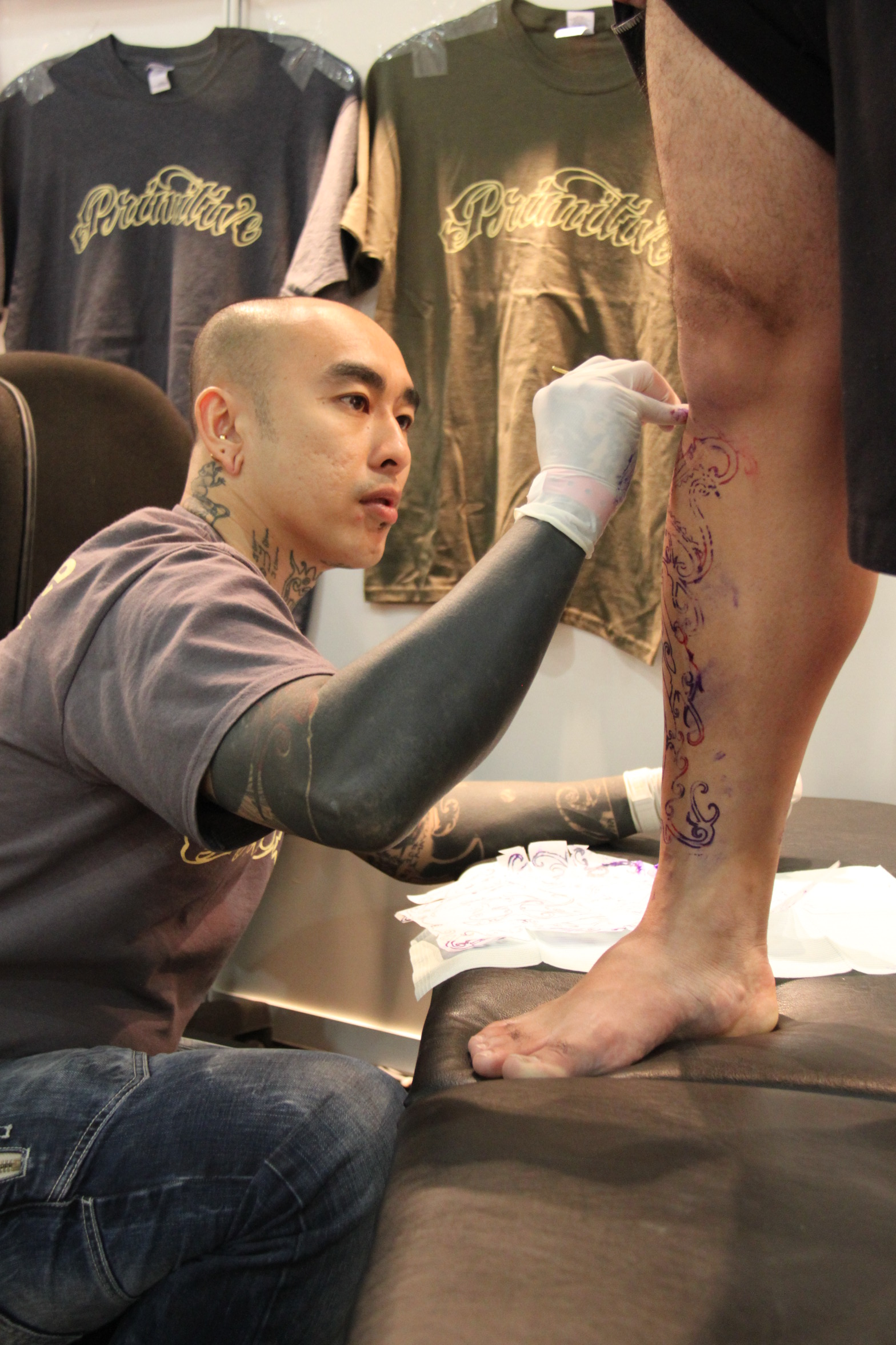 Marc Pinto drawing a design on a client at the Singapore Tattoo Show 2010.